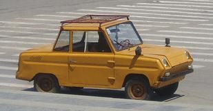 SZD Cycle-car seen in Tiraspol